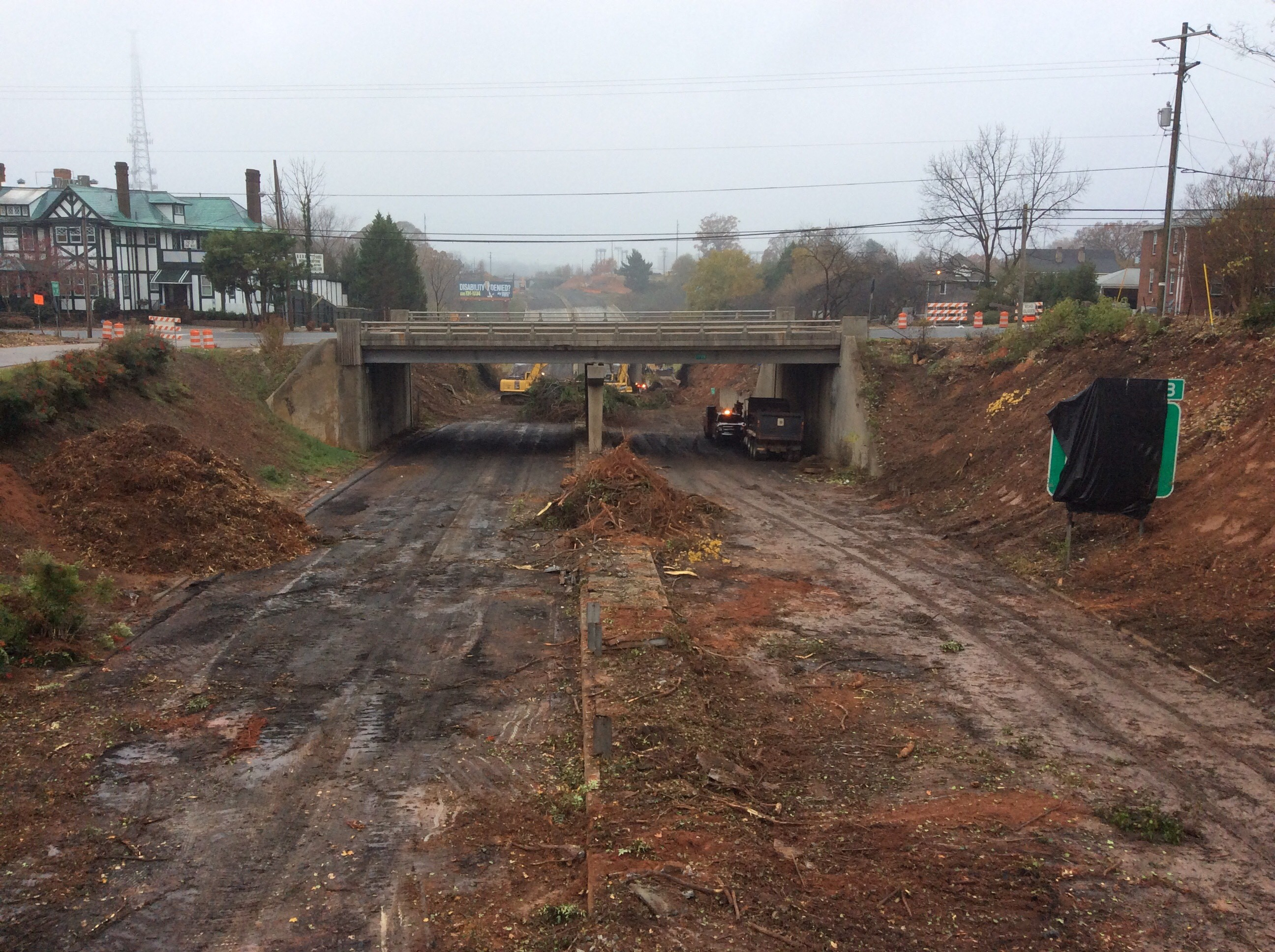 The day Business 40 closed, on Nov. 17, 2018, work began on the Broad Street bridge.